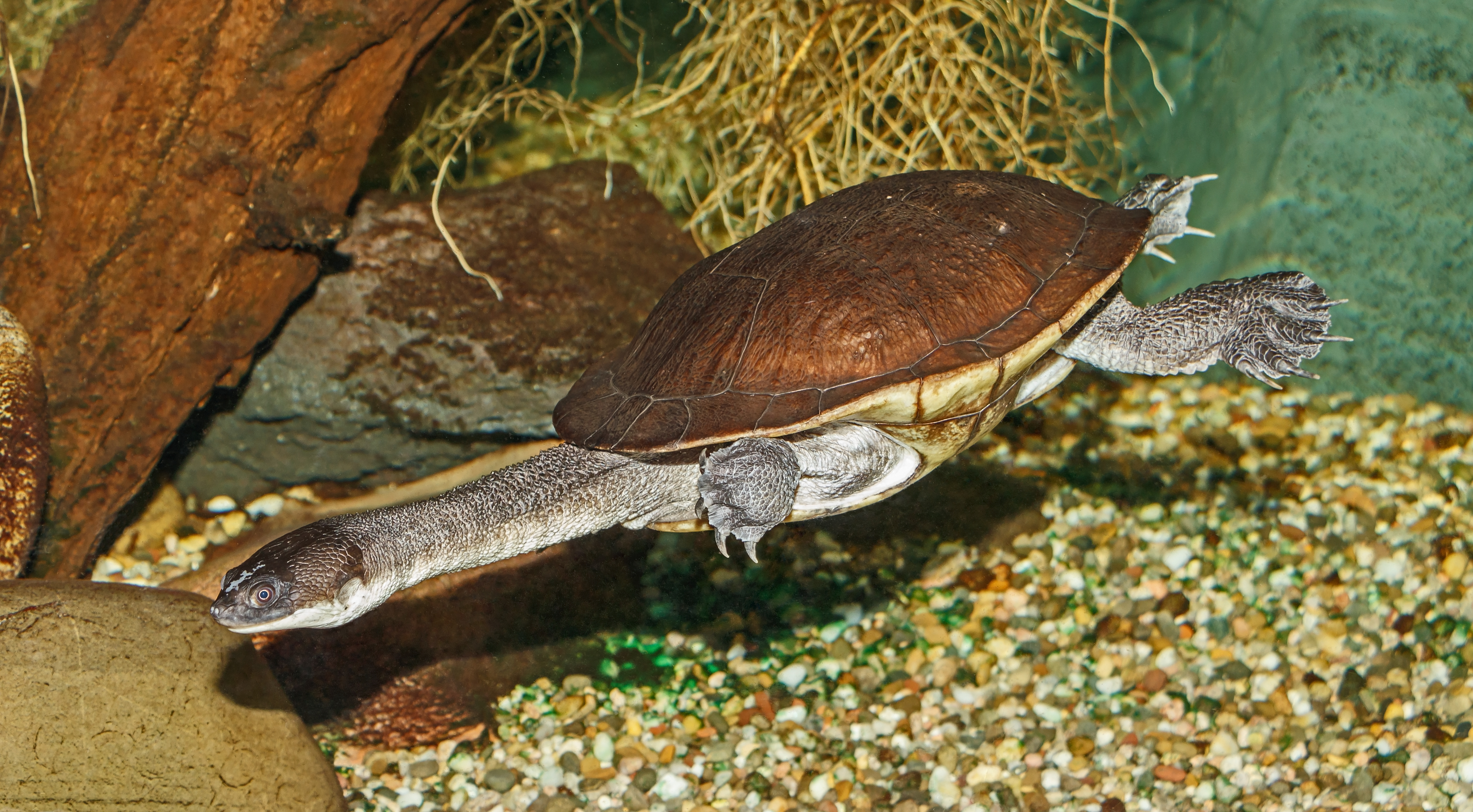 Chelodina mccordi Rhodin, 1994, Roti Island snake-necked turtle; Karlsruhe Zoo, Karlsruhe, Germany.